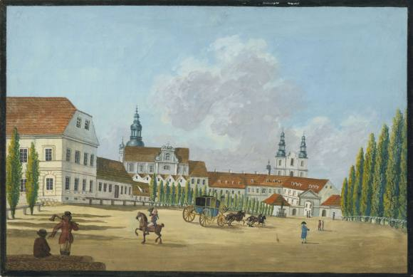 View of Wilhelms Alee